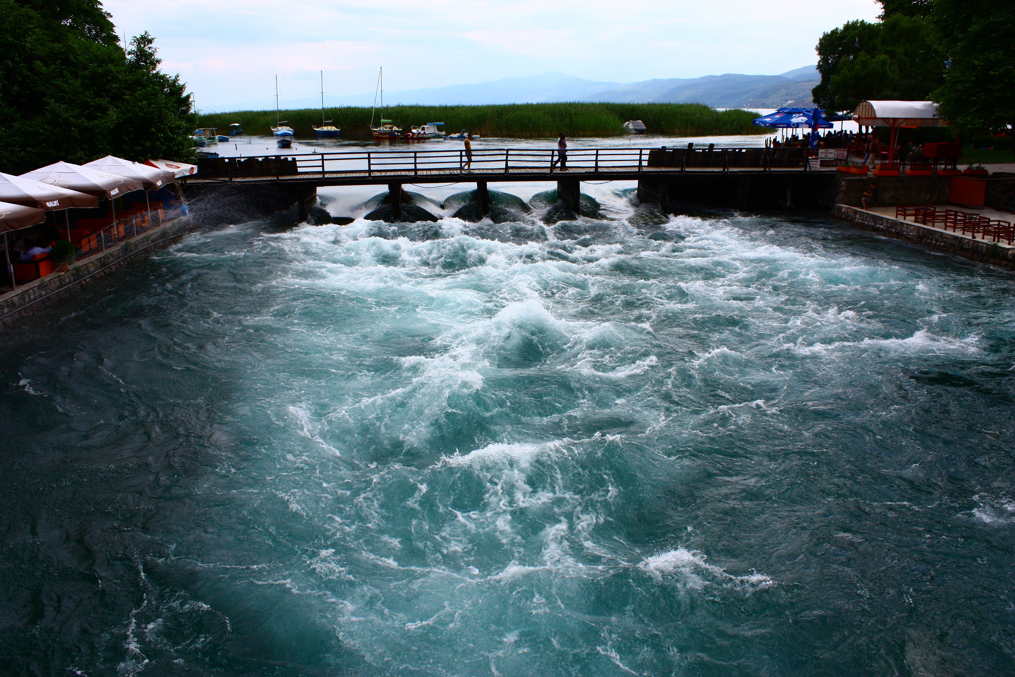 Struga, Macedonia